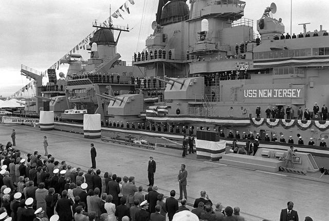 President Ronald Reagan's "600-ship Navy" plan called for the reactivation, modernization, and recommissioning of all four Iowa class battleships. Here, Reagan (below the "New Jersey" sign, to the extreme right) speaks at New Jersey's recommissioning ceremony.